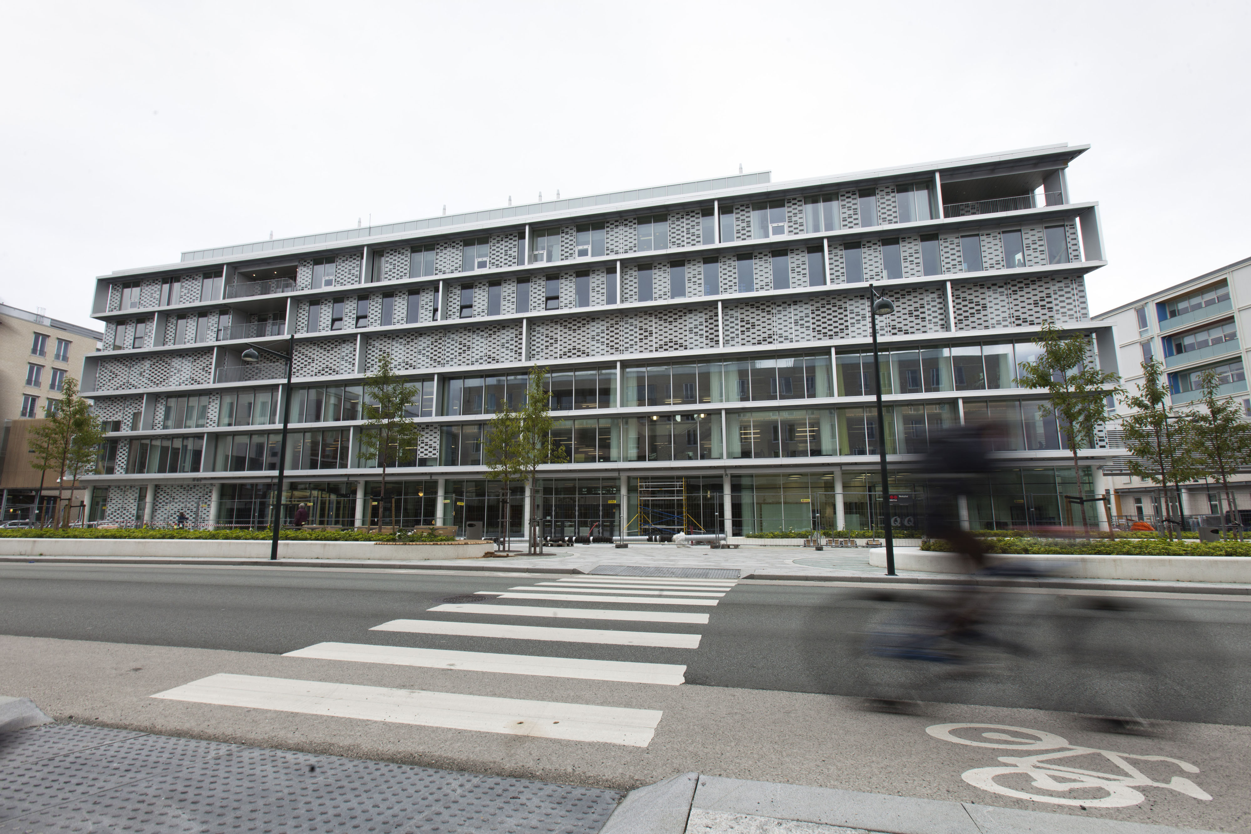 The new "knowledge center" (Kunnskapssenteret) at the St. Olav hospital in Trondheim, Norway. Architect: Narud Stokke Wiig arkitekter og planleggere (now: Nordic Office of Architecture) v/architect Hanne Hemsen.